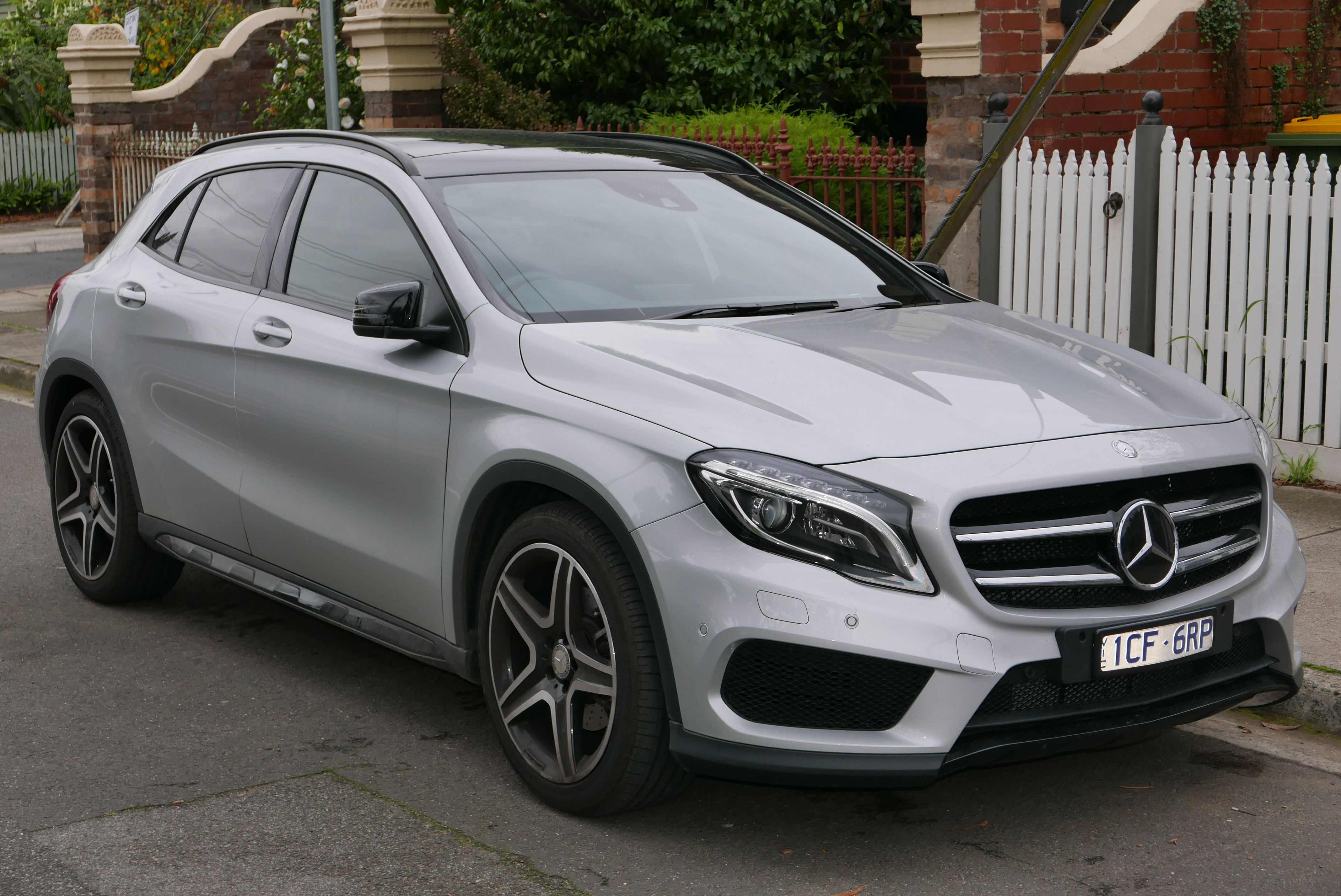 2014 Mercedes-Benz GLA 250 (X 156) 4MATIC wagon. Photographed in Northcote, Victoria, Australia. Vehicle registration enquiry resultsJurisdictionVictoriaRegistration1CF6RPChassis codeWDC1569462J078695Engine code27092030547958Compliance date2014-12Year of manufacture2014